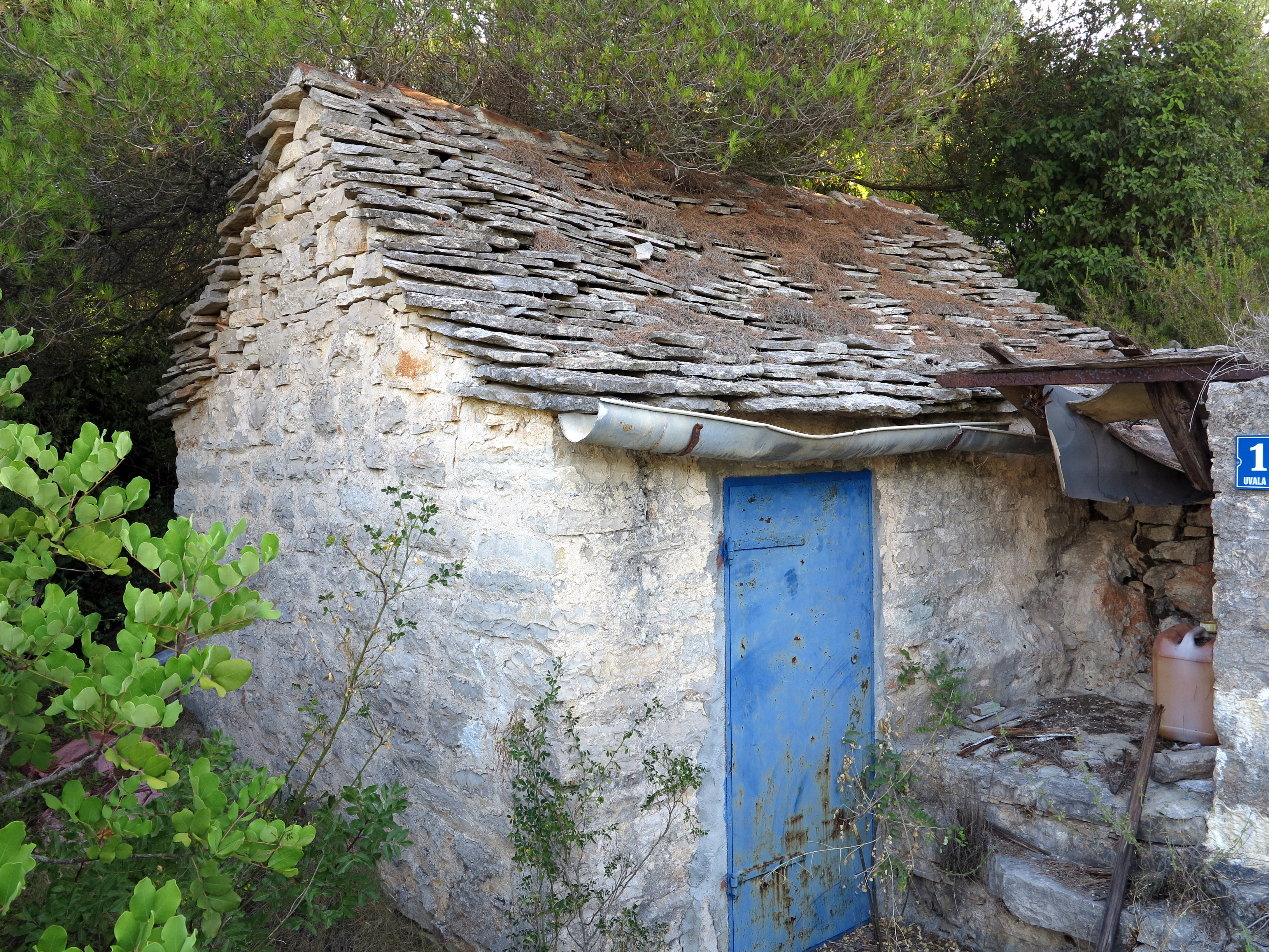 Old fishing hut, built of limestone, small and without windows, roof covered with stone slabs in the bay of Nečujam Šolta / Croatia / Adriatic Sea.